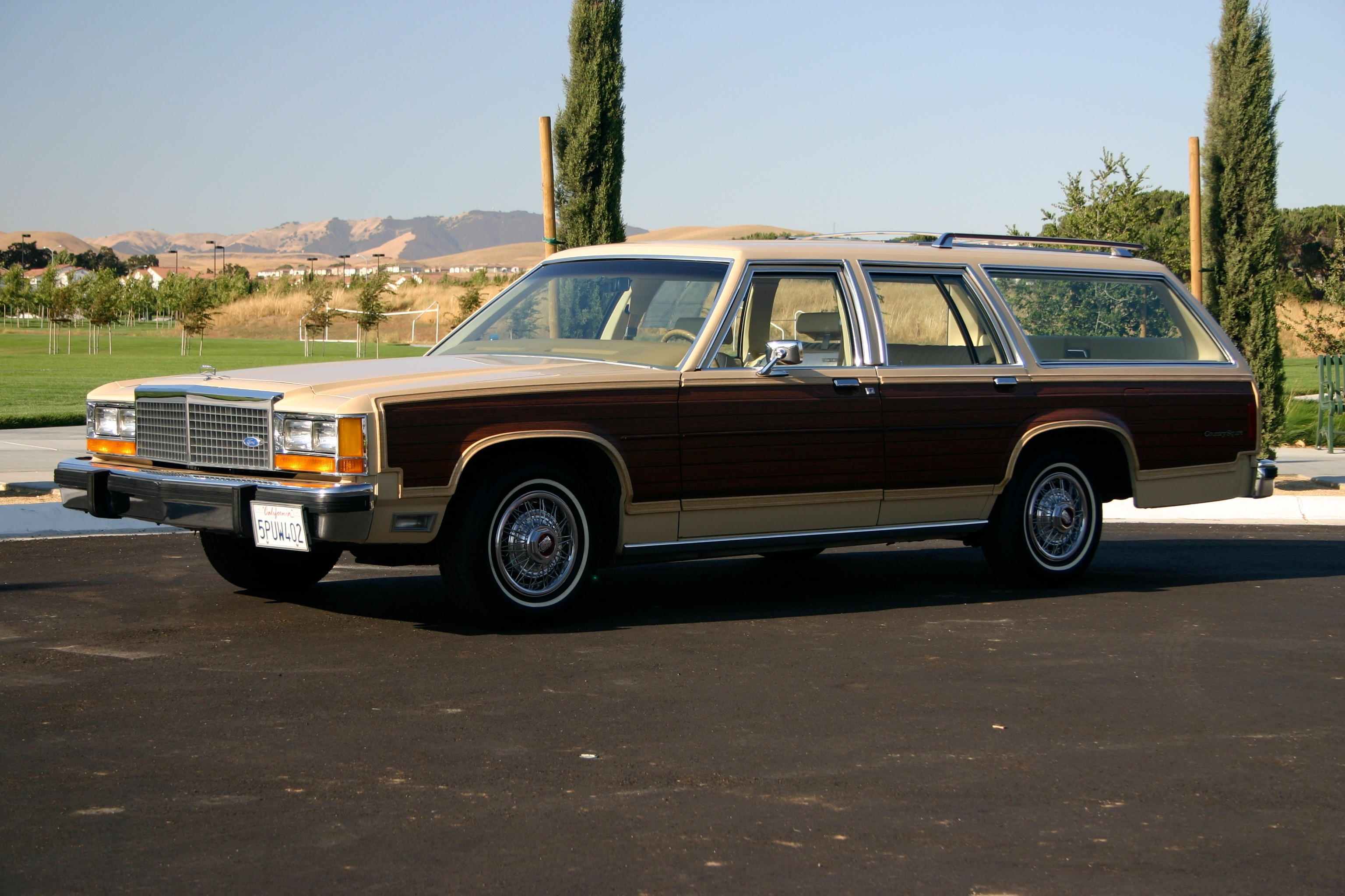 A drivers side view of a like-new 1982 Ford LTD Country Squire